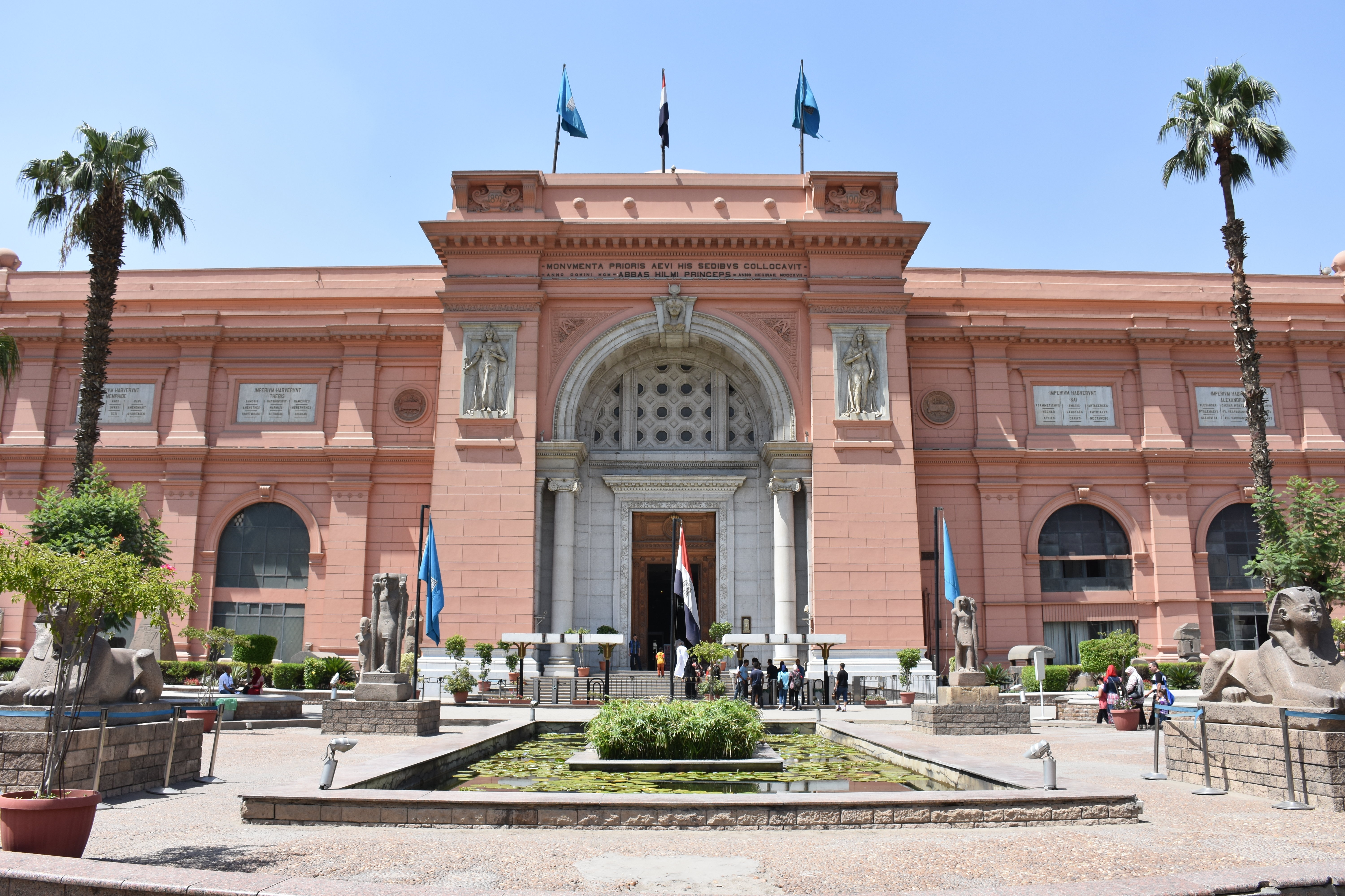 Front of the Egyptian Museum in Cairo in May of 2015